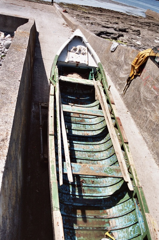 Disused Currach